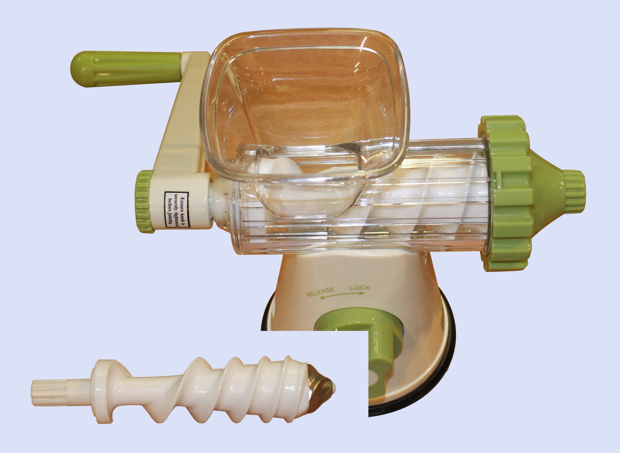 Lurch Green Power Juicer with one auger